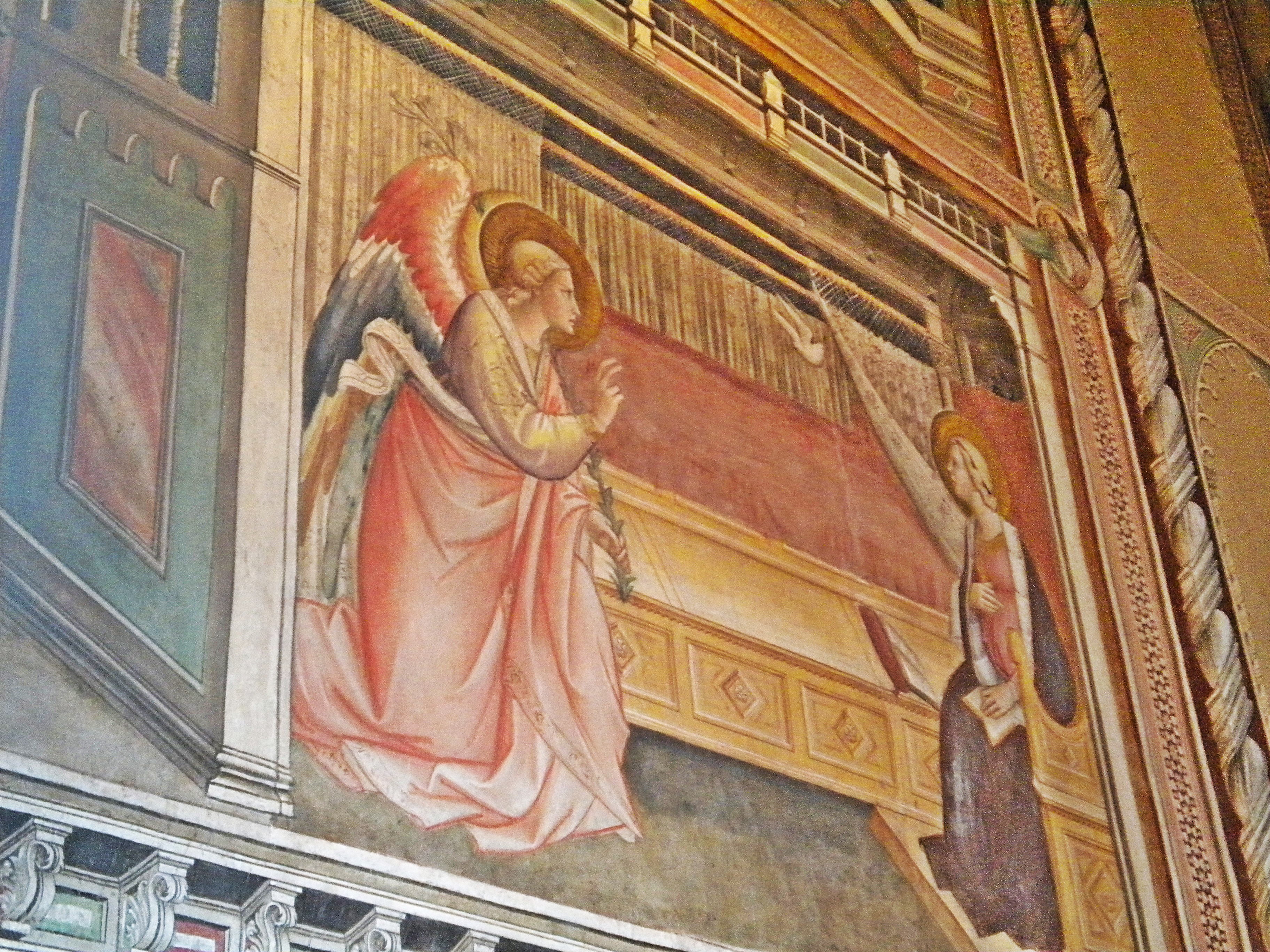 fresco